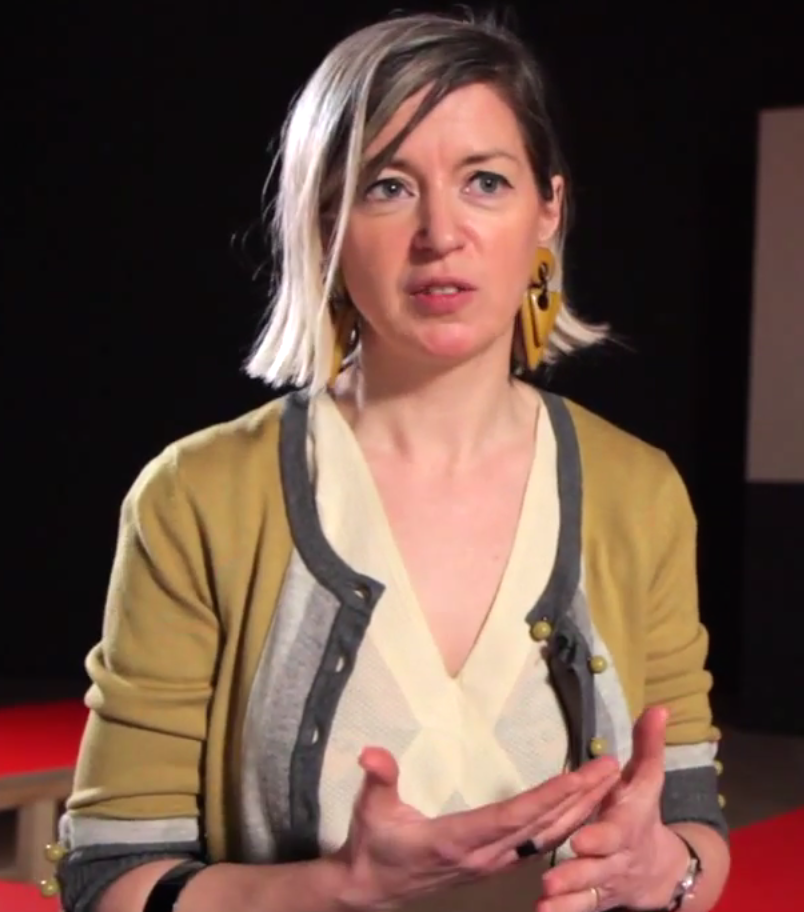 Video artist Elizabeth Price at the the Baltic Centre for Contemporary Art in Gateshead during 'Here' Exhibition. Interview by ArtPlayerTV